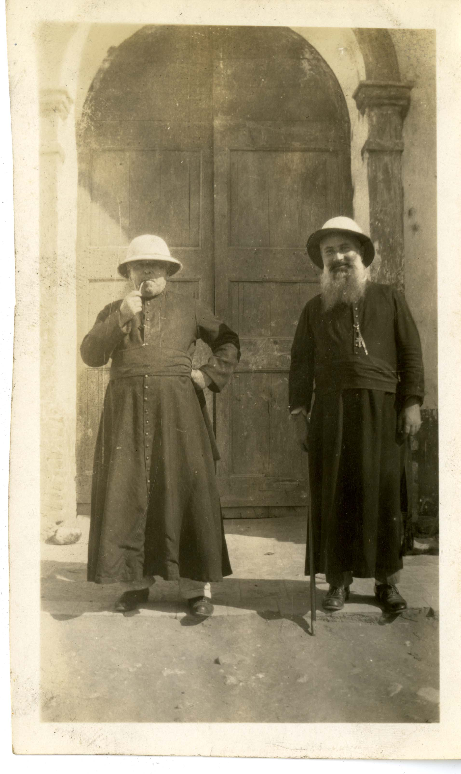 Creator: Watson Perrygo Local number: SIA2008-2509 Summary: The photograph documents Watson Perrygo's field work with Arthur J. Poole in Haiti. Dates: 1928-1929 Collection: SIA RU 7306, Watson M. Perrygo Papers, circa 1880s-1979. Box 2, Folder 10. Repository: Smithsonian Institution Archives View more collections from the Smithsonian Institution.